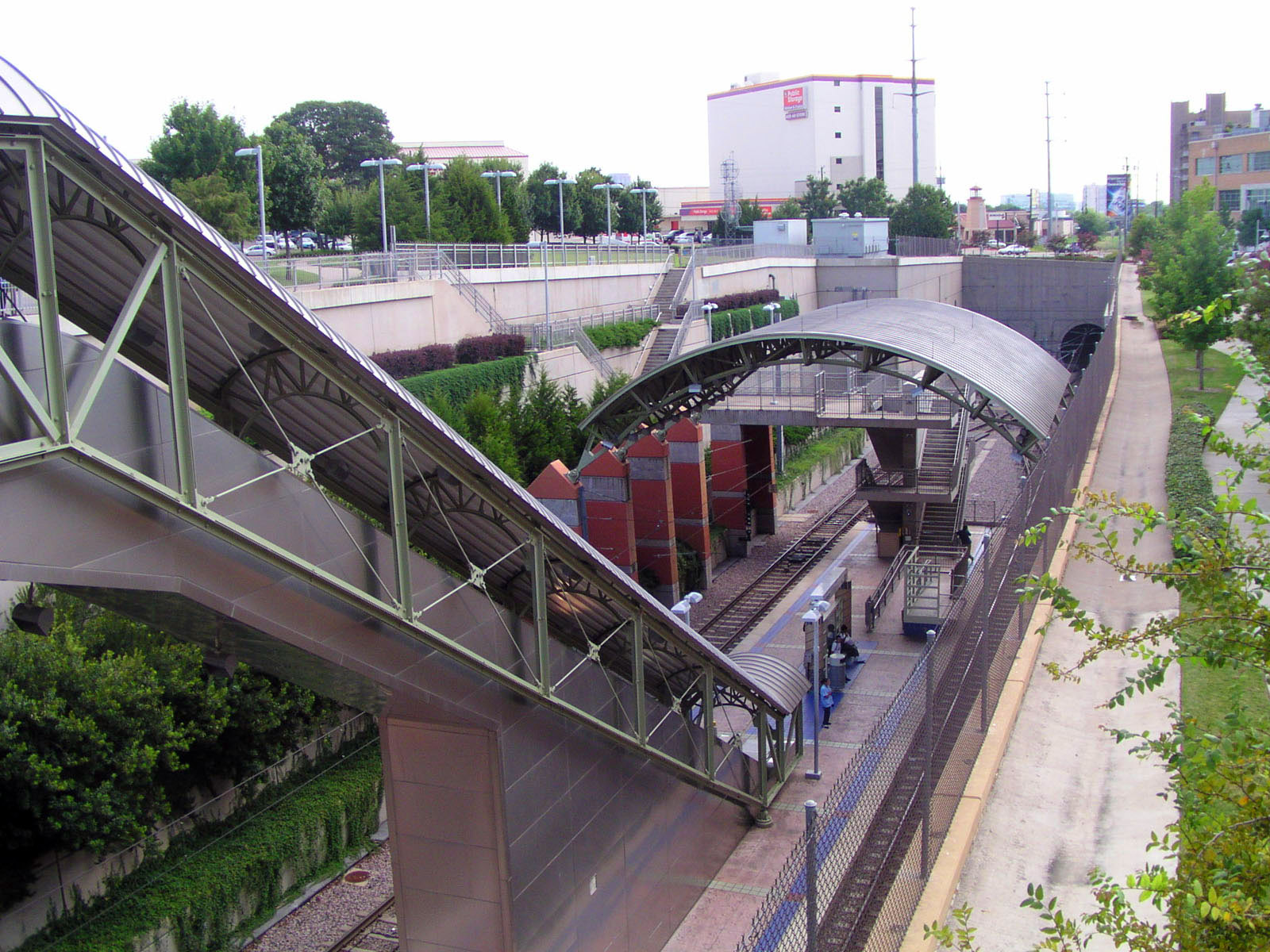 Looking down on the trenched Mockingbird Station, a station on the Dallas Area Rapid Transit's Blue and Red Lines in north Dallas, Texas (USA).